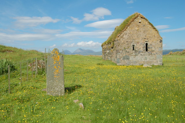 13th Century Christian Chapel, Eilean Mor, MacCormaig Isles. The chapel of St Cormac (Abban moccu Cormaic), believed to have been built in the early 13th century.